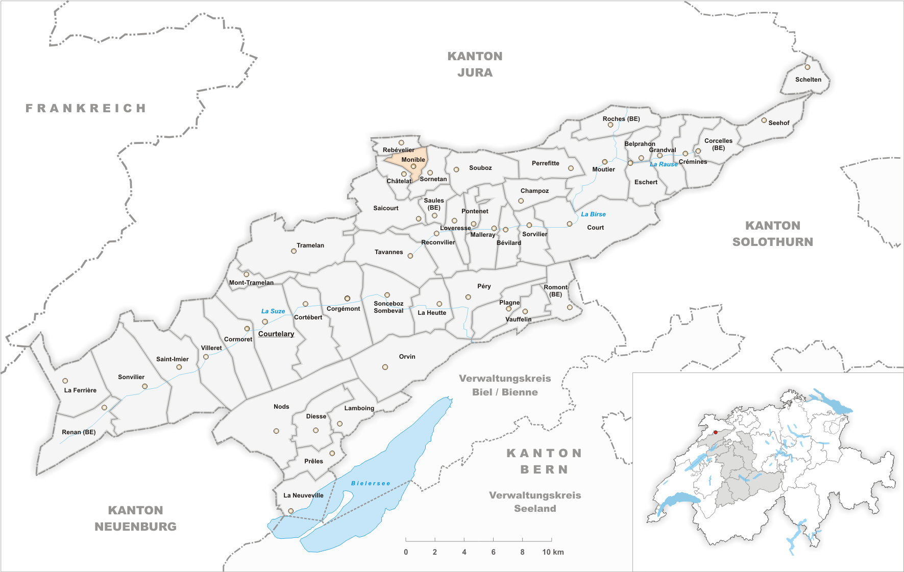 Municipality Monible